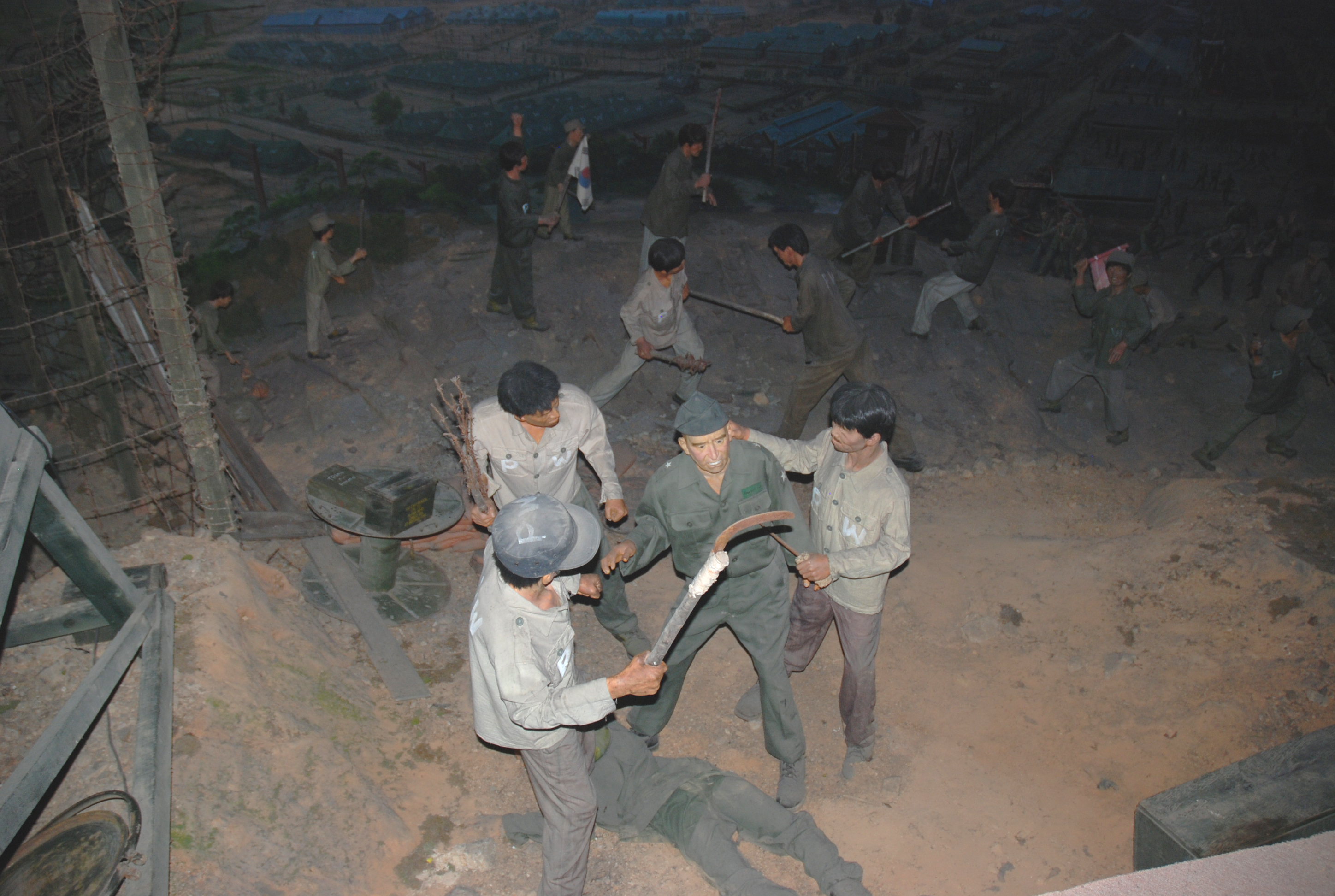 Geoje-POW Camp Revolt Incident